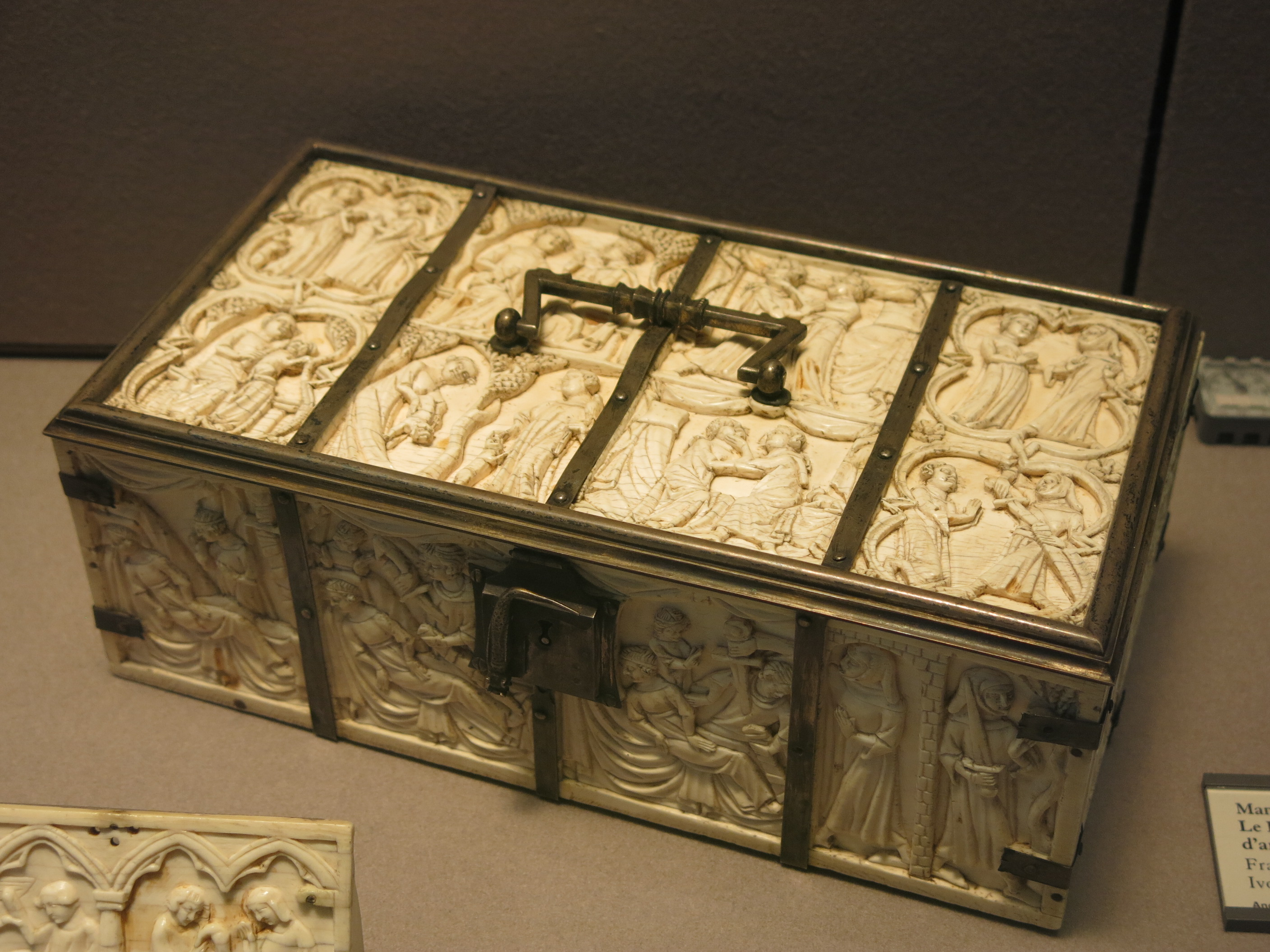 Box of the chatelaine (=castellan's wife) de Vergy. This profane box illustrates the romance of the love between the chatelaine de Vergy and a knight. Paris. 2nd quarter of the 14th century. Ivory. Purchase 1818. Louvre museum (Paris, France).